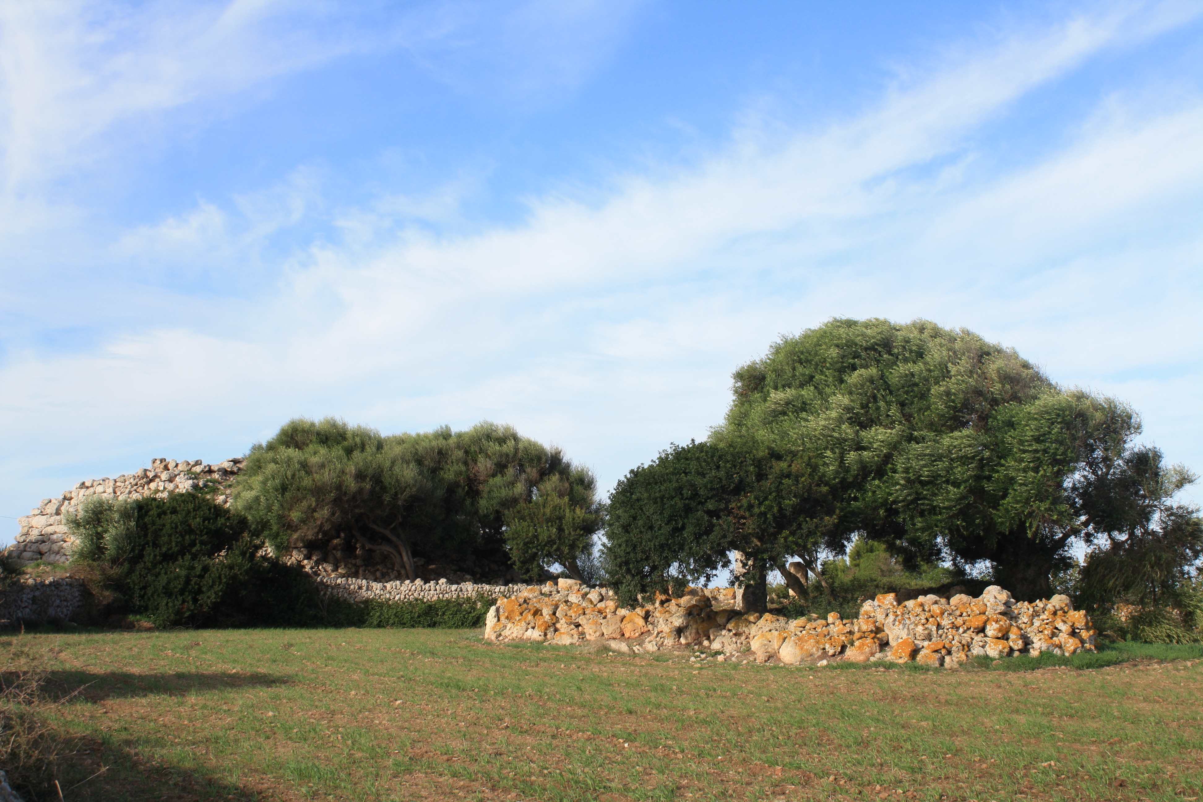 Talayot of Binicalsitx and Taula of Binimassó, Ferreries, Minorca.